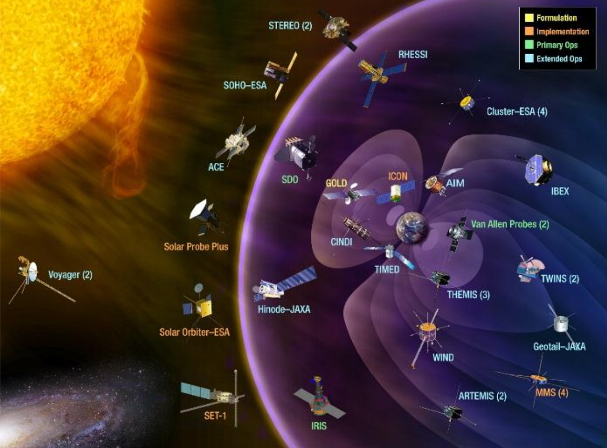 NASA Heliophysics science missions feb 2015